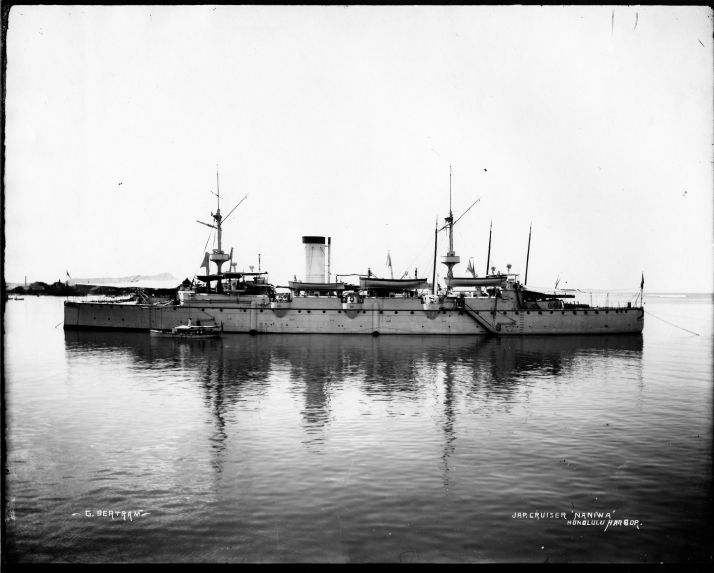 Title: Japanese Cruiser, “Naniwa” Creator: Brother Bertram Subjects: Honolulu Harbor; Ships Island: Oahu City: Honolulu